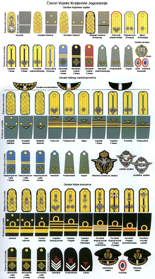 Ranks of Royal Yugoslav Armed Forces of the Kingdom of Yugoslavia - Royal Yugoslav Armed Forces (RYAF)